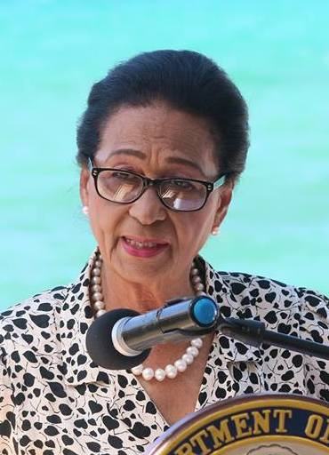 Marguerite Pindling, the Governor-General of the Bahamas, speaks at a U.S. Embassy Memorial Day wreath laying ceremony in the Bahamas on May 30, 2017.